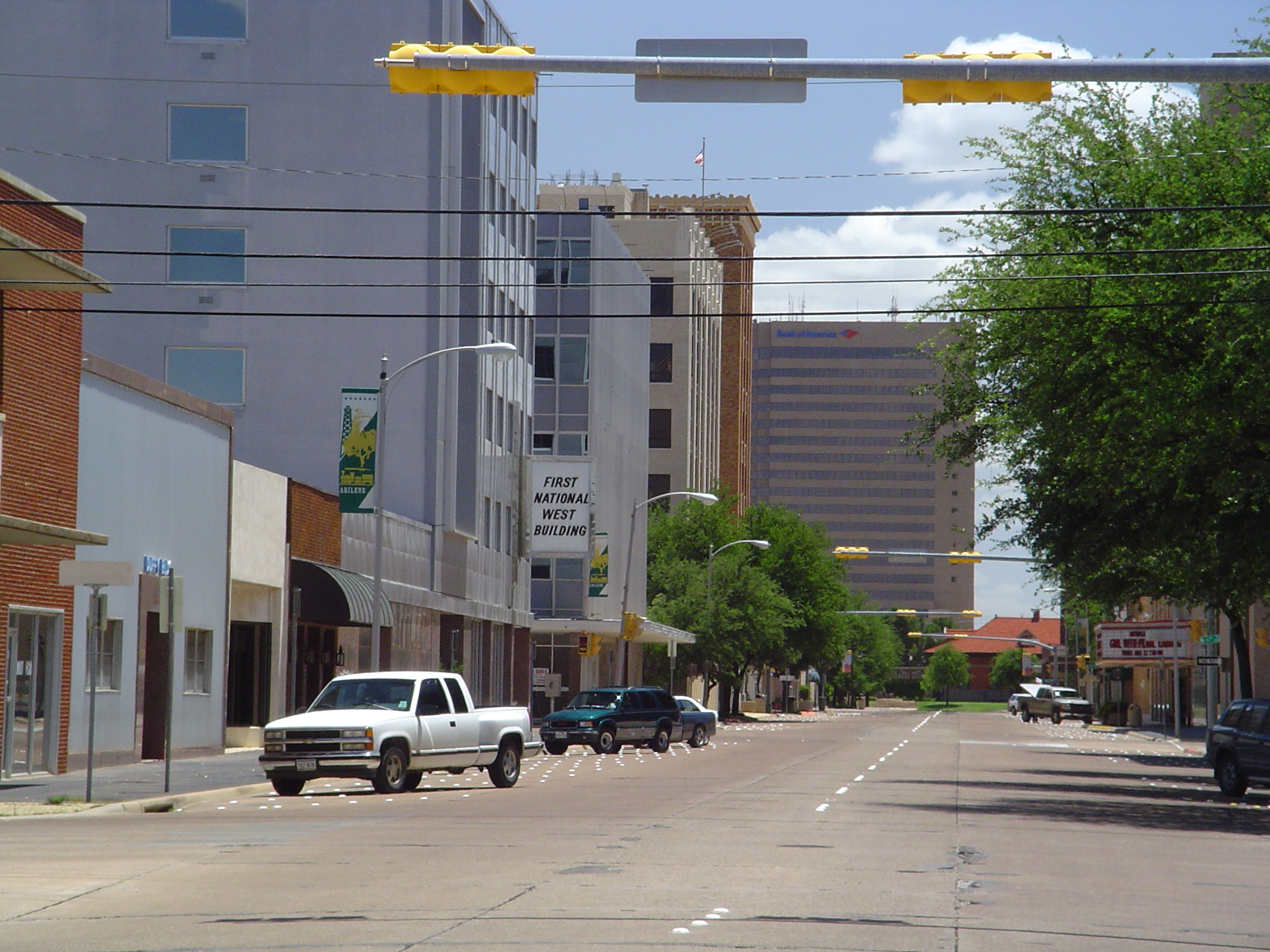 Downtown Abilene, Texas, looking south from the 500 block of Cypress St. One of the buildings on the left is the Ely Building, a silver, 5-story office structure built in the 1960s; it was demolished in late 2005, and the site is now a parking lot.